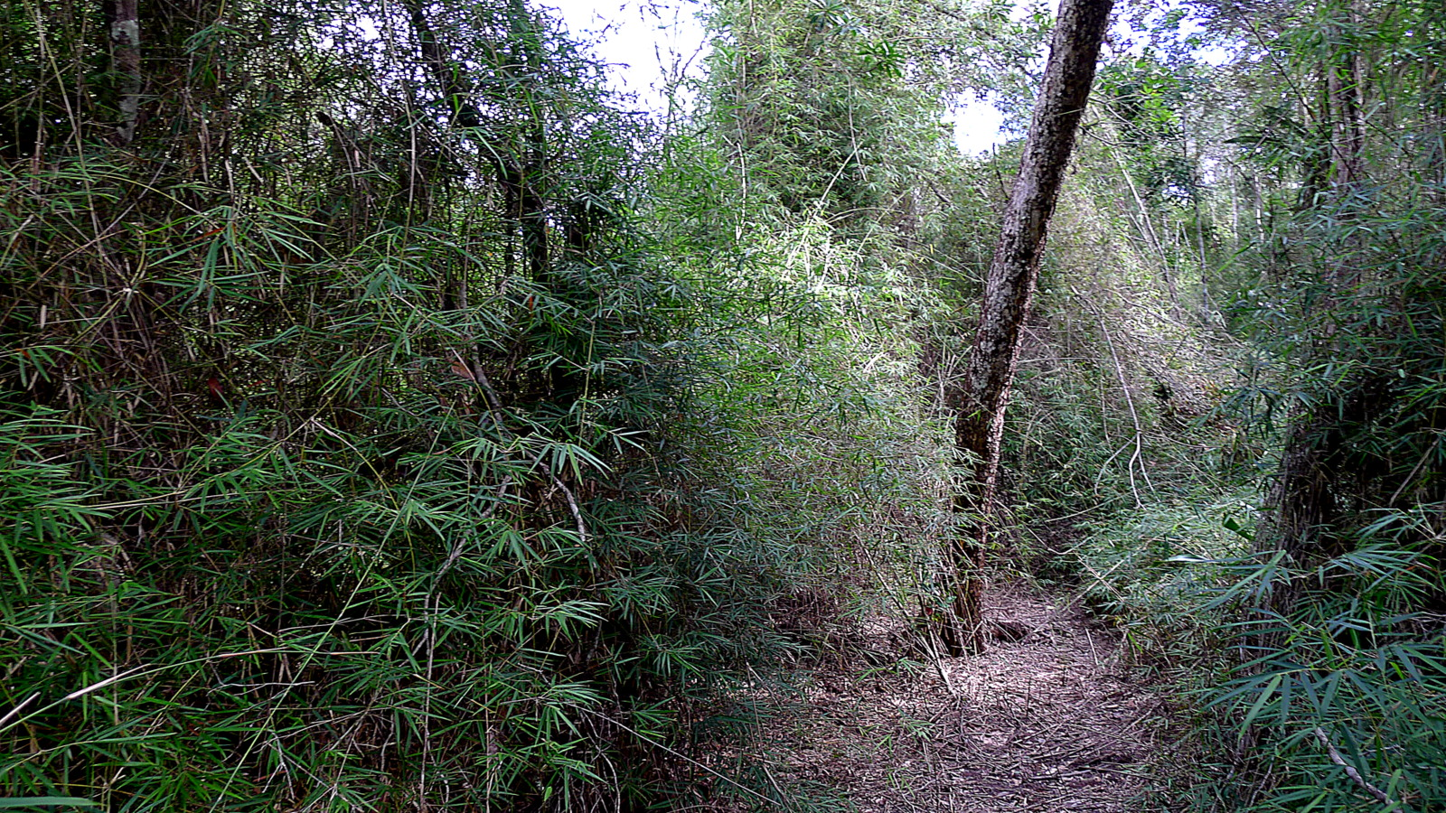 Bamboo thicket (of Atractantha falcata McClure), Atlantic forest, northeastern Bahia, Brazil